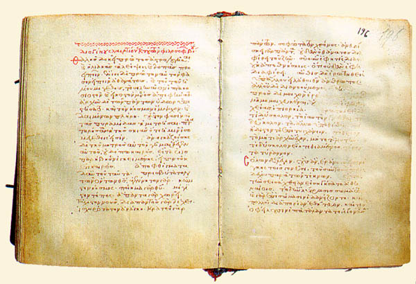 Taken from Hellenic Ministry of Culture website. Dionysiou monastery, codex 90, a en:13th century manuscript containing selections from Herodotus, Plutarch and (shown here) Diogenes Laertius.